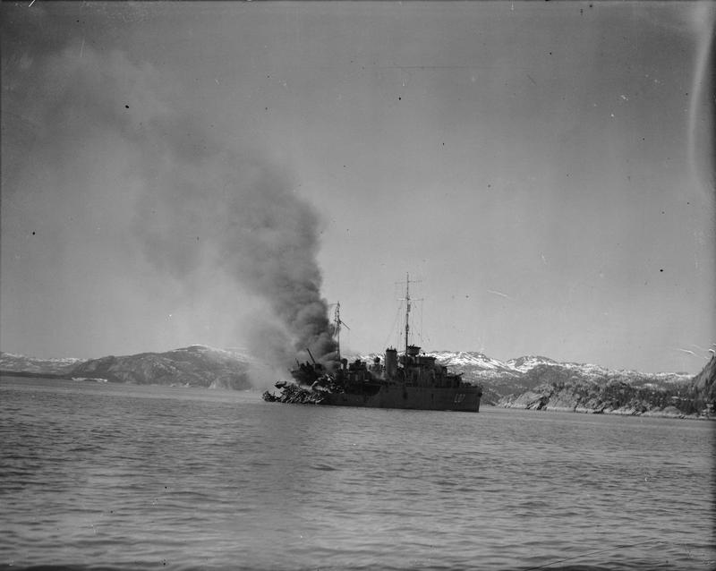 HMS Bittern HMS BITTERN ablaze in Namsos Fjord after having suffered a direct hit in the stern by a bomb.